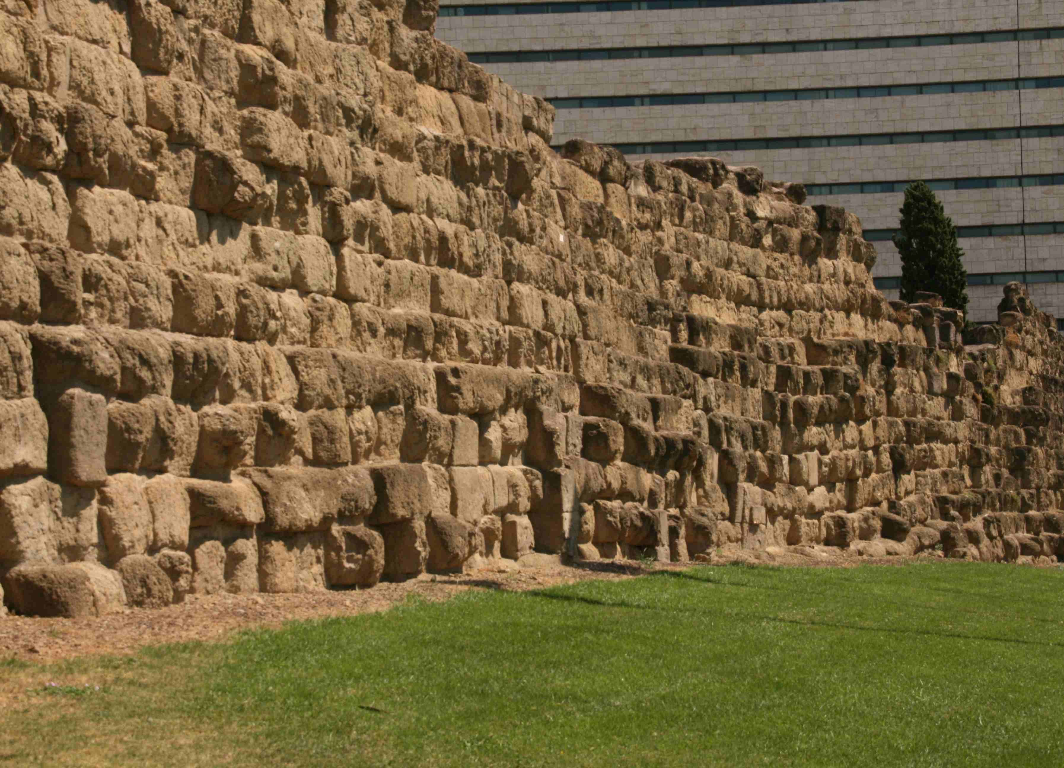 The Servian Wall in front of Termini Station, Rome, Italy.